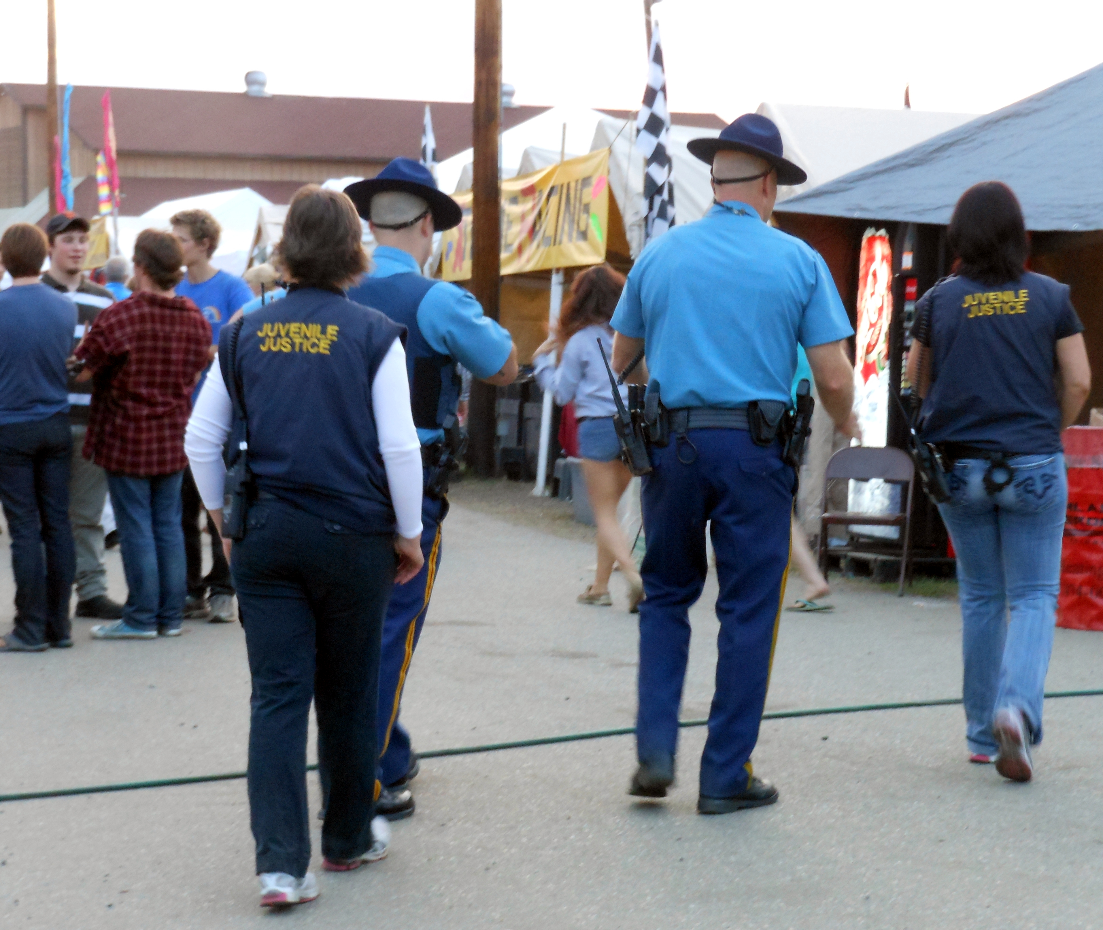 Uniformed Alaska State Troopers, accompanied by officers from the Alaska Division of Juvenile Justice, patrol the 2012 Tanana Valley State Fair.